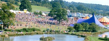 The view of the Big Chill music festival at Eastnor Castle.